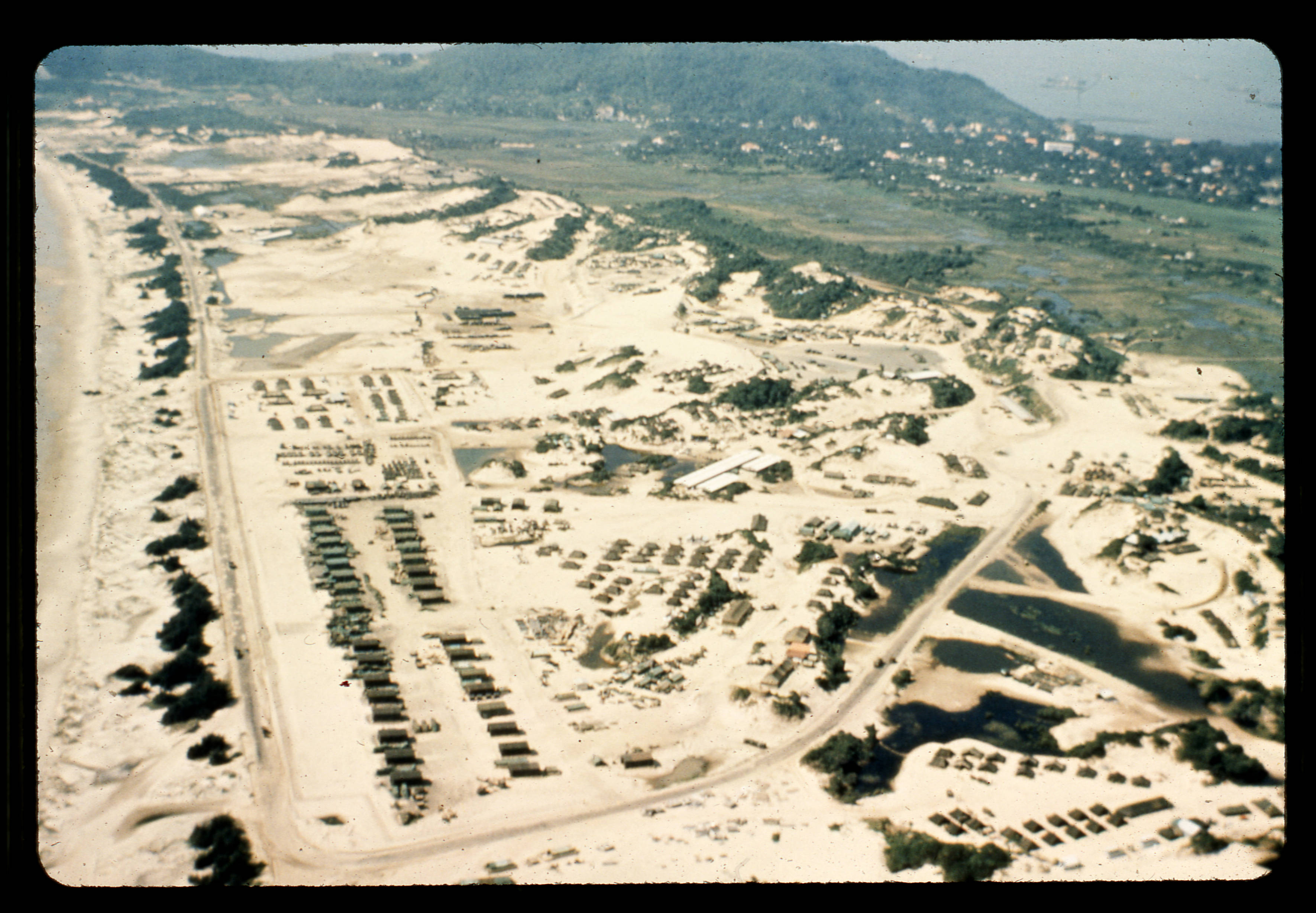 The Austrailian cantonment at Vung Tau shown in the photograph which is oriented toward the south. This cantonment faces the South China Sea